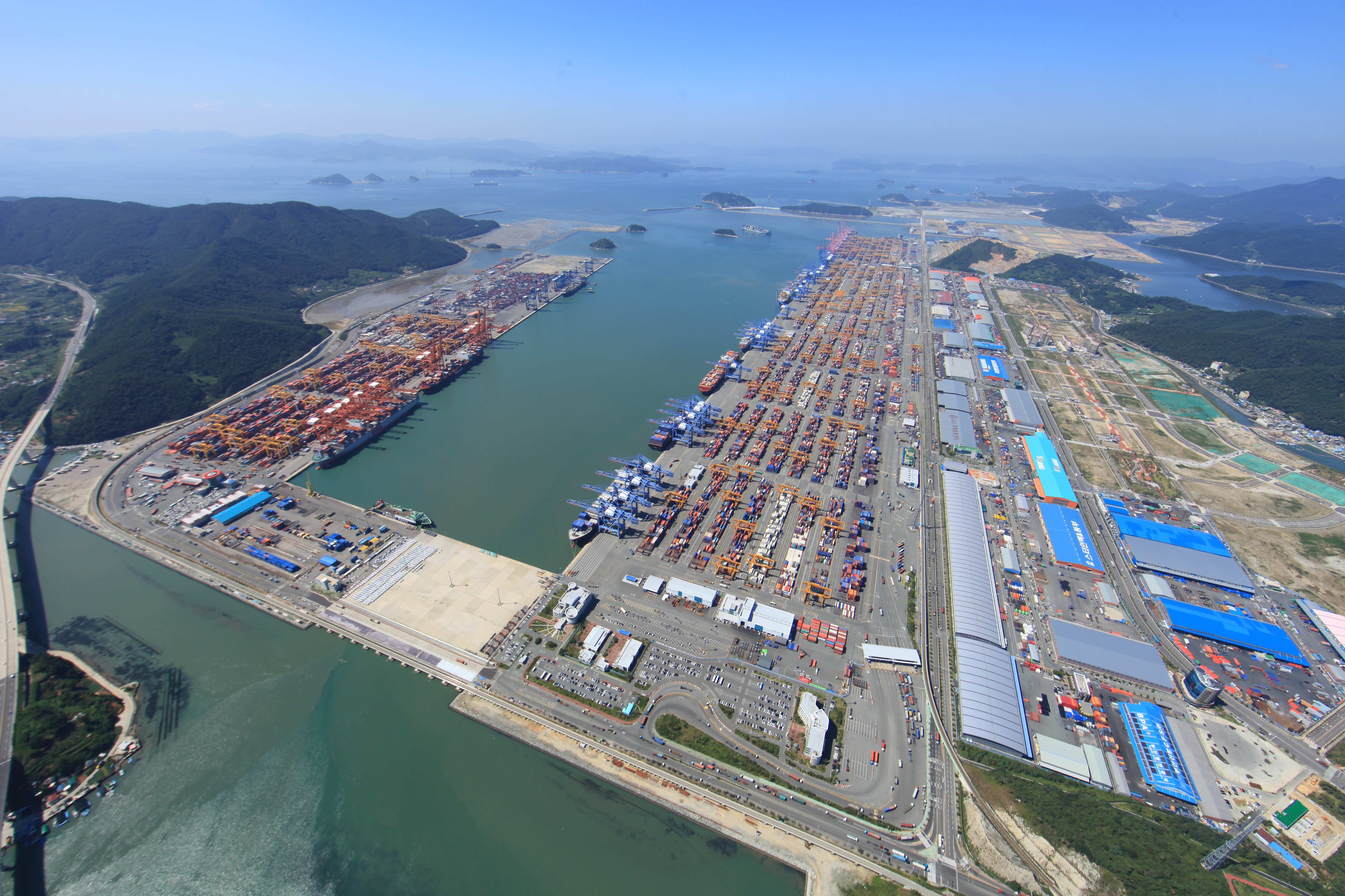 Busan port is the largest port in South Korea, located in the city of Busan, South Korea.